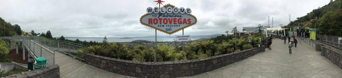 A panoramic view of Rotorua, Taken at the top of Mt Ngongotaha